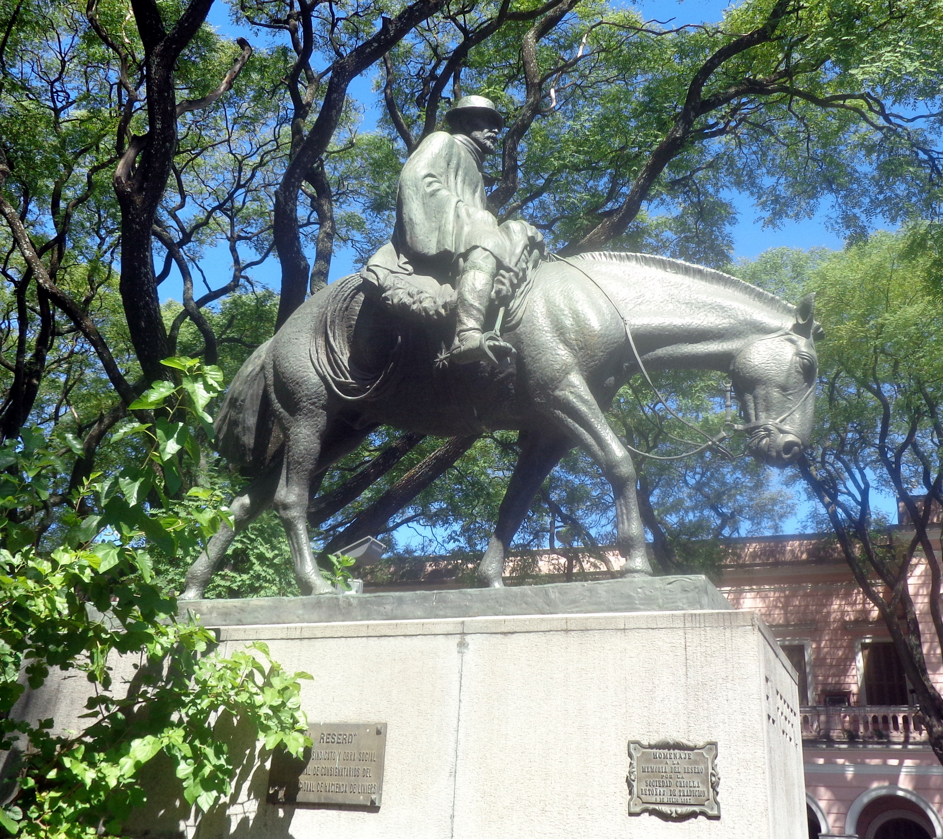 Statue "El Resero" of Emilio Jacinto Sarniguet (1932), in Mataderos, Buenos Aires city. Intersection of Lisandro de la Torre avenue and "de los Corrales" avenue.